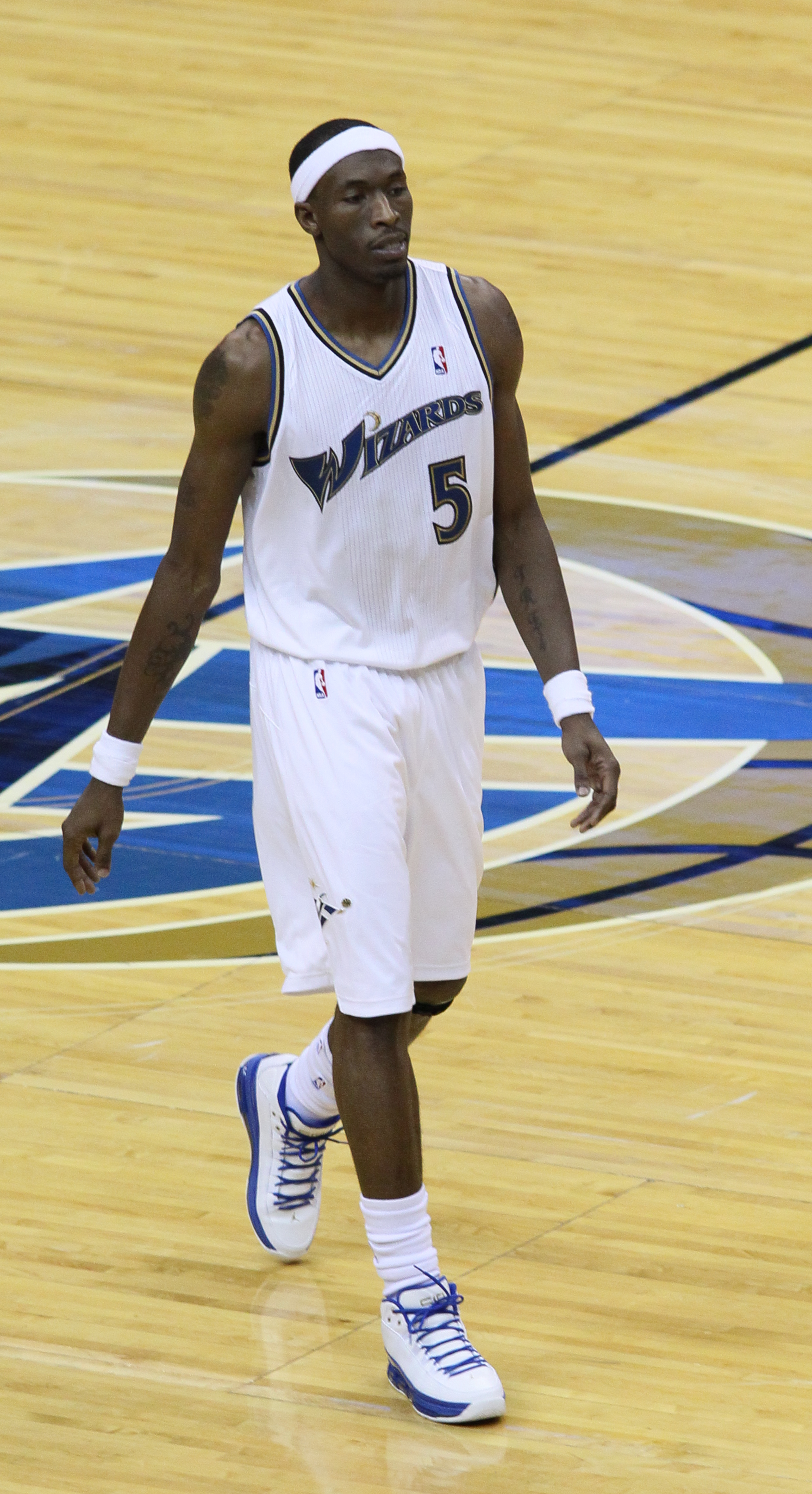 Washington Wizards v/s Miami Heat December 18, 2010